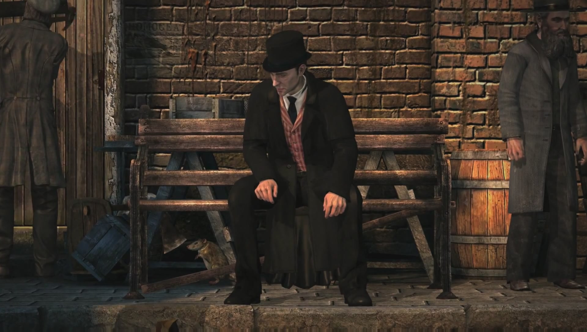 Screenshot from The Testament of Sherlock Holmes, a video game by Frogwares.